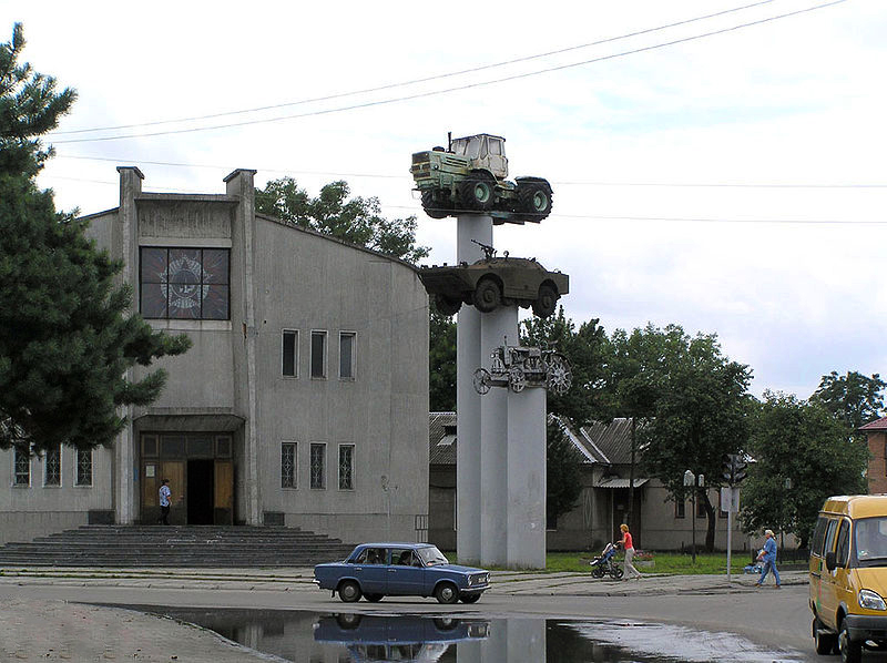 Museum in the city Slavuta, Khmelnytskyi Oblast (province).